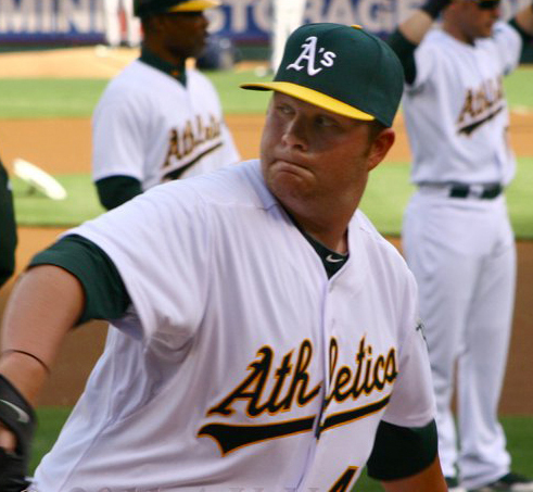 BrettAnderson_warmup